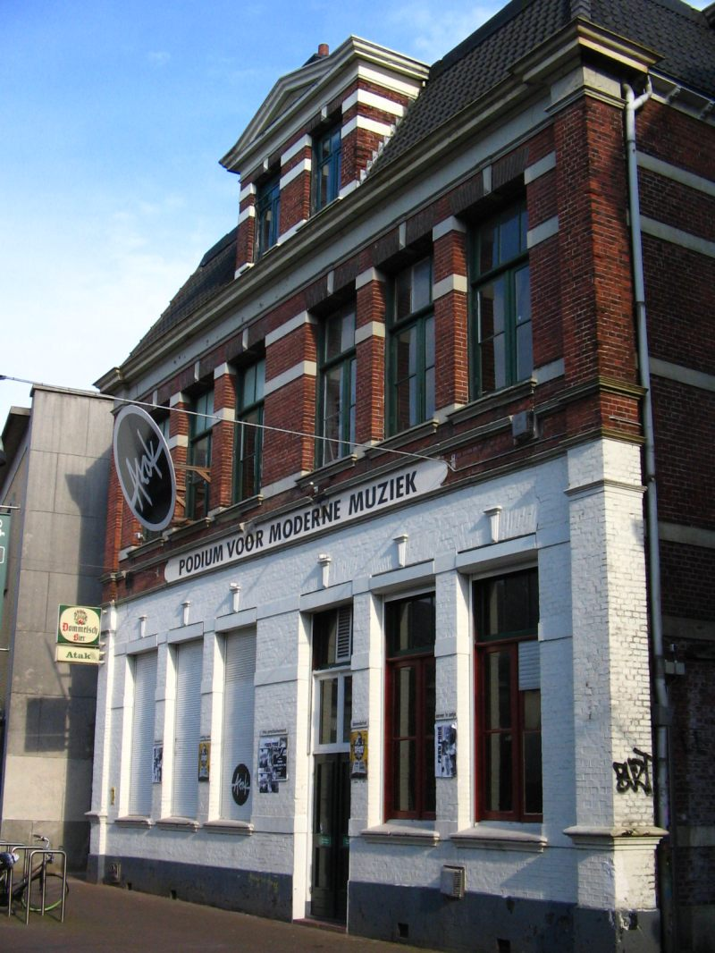 Former building of Atak Poppodium at Noorderhagen, Enschede